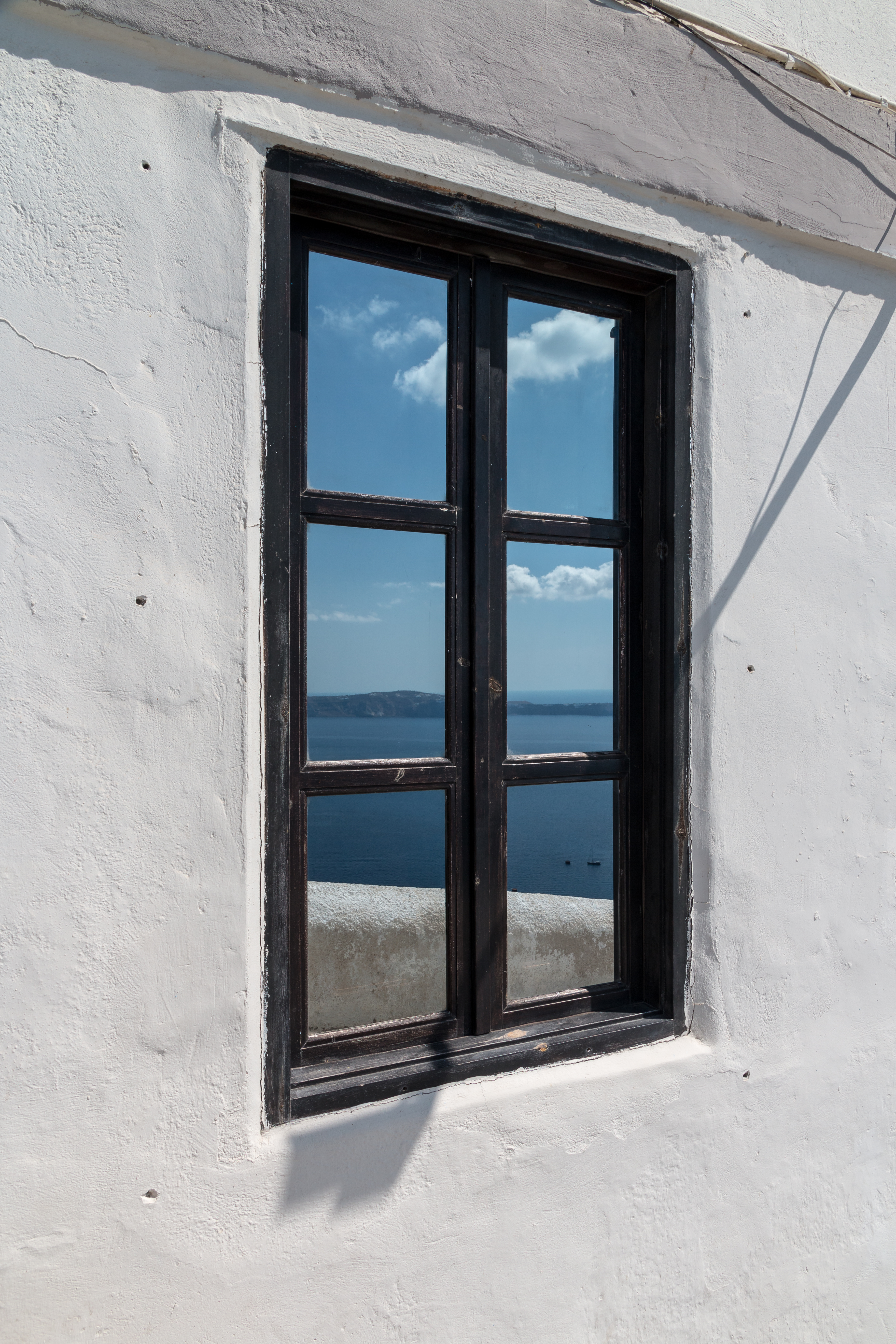 Window in Fira, Santorini, Greece